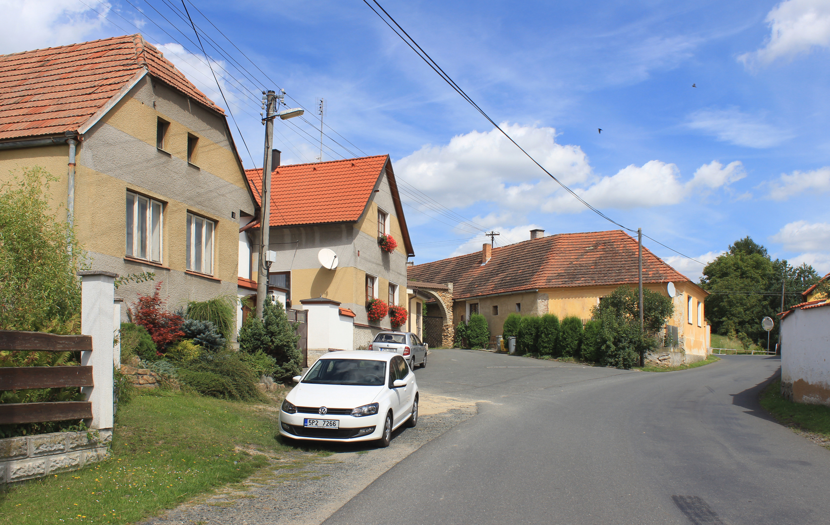 Main street in Poděvousy, Czech Republic.